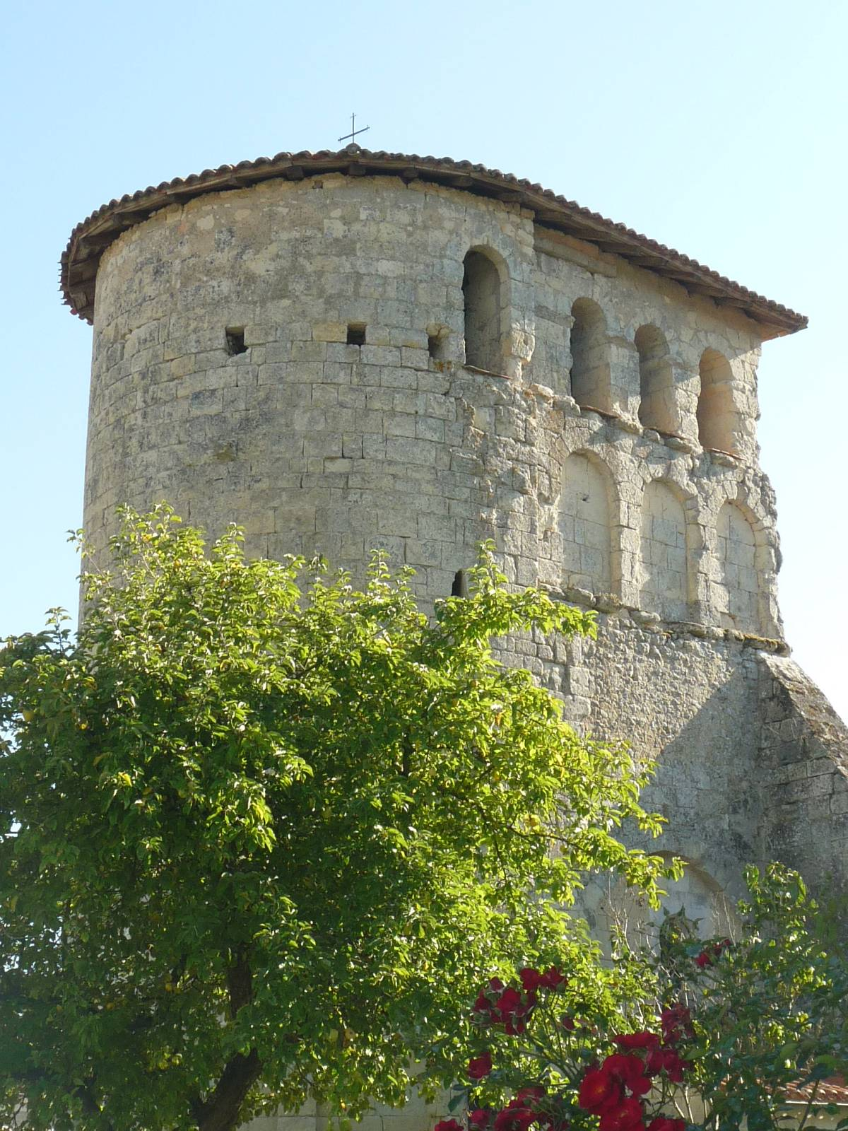 church of Bouteilles, Dordogne, SW France